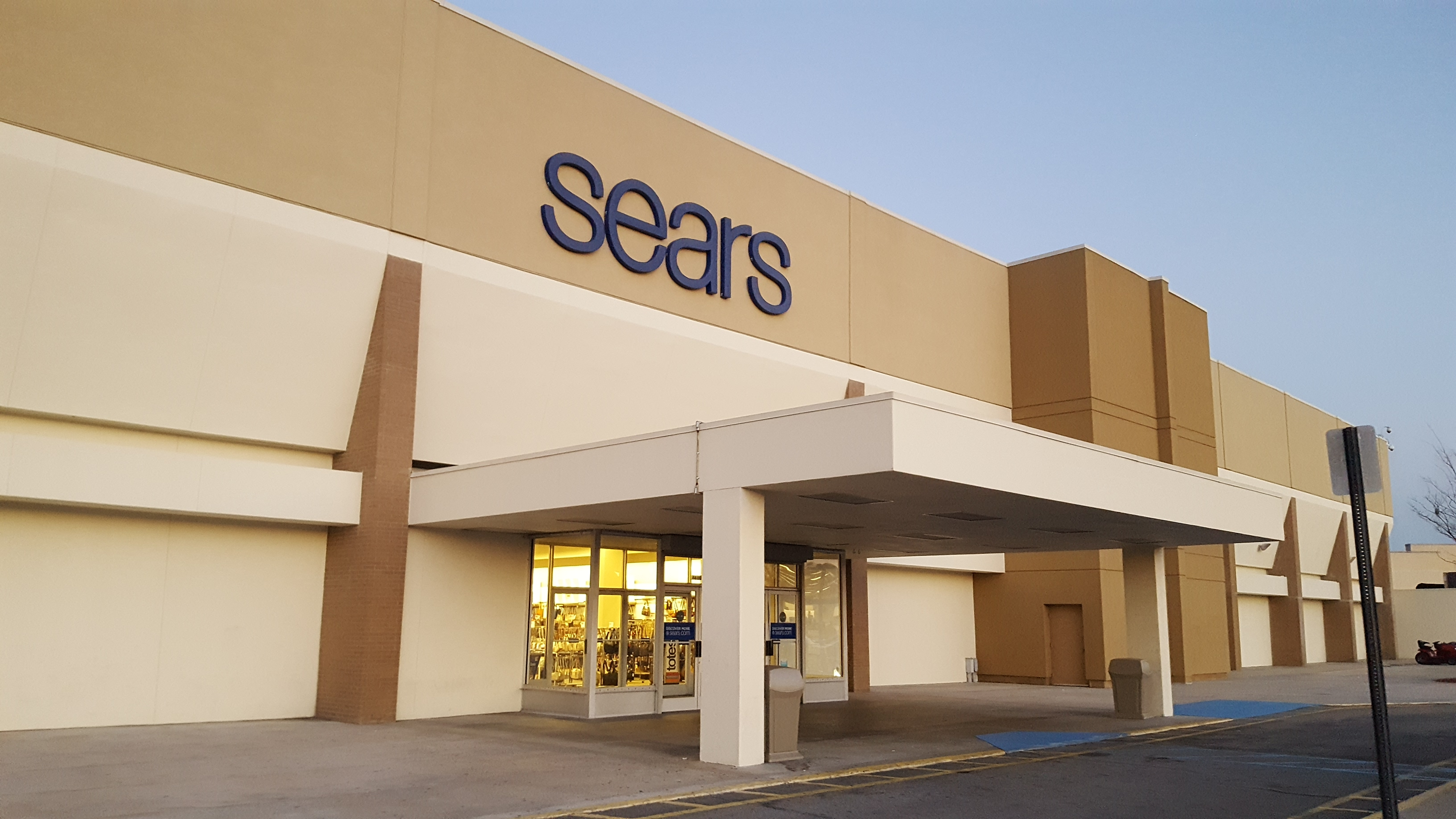 Sears with newer logo in Savannah, Georgia